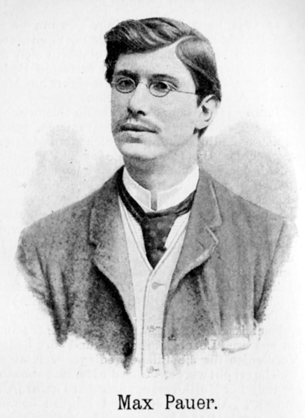 German pianist Max von Pauer (1866—1945)